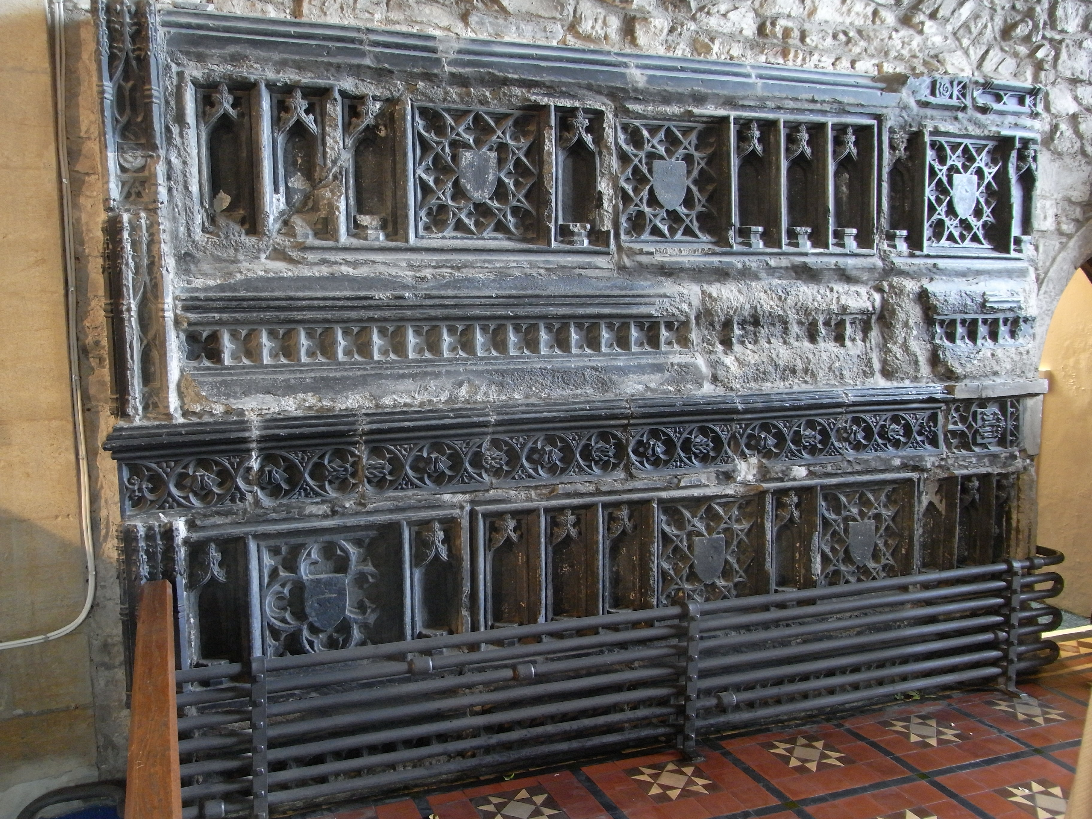 Remnants of tomb chest of Thomasine Hankford (d.1453), wife of William Bourchier (1407-1470) jure uxoris 9th Baron FitzWarin, feudal baron of Bampton. North wall of chancel, Bampton Church, Devon. Displays in a row within quatrefoils Bourchier Knots alternating with water bougets of Bourchier arms. (Pevsner, Nikolaus & Cherry, Bridget, The Buildings of England: Devon, London, 2004, p.147)